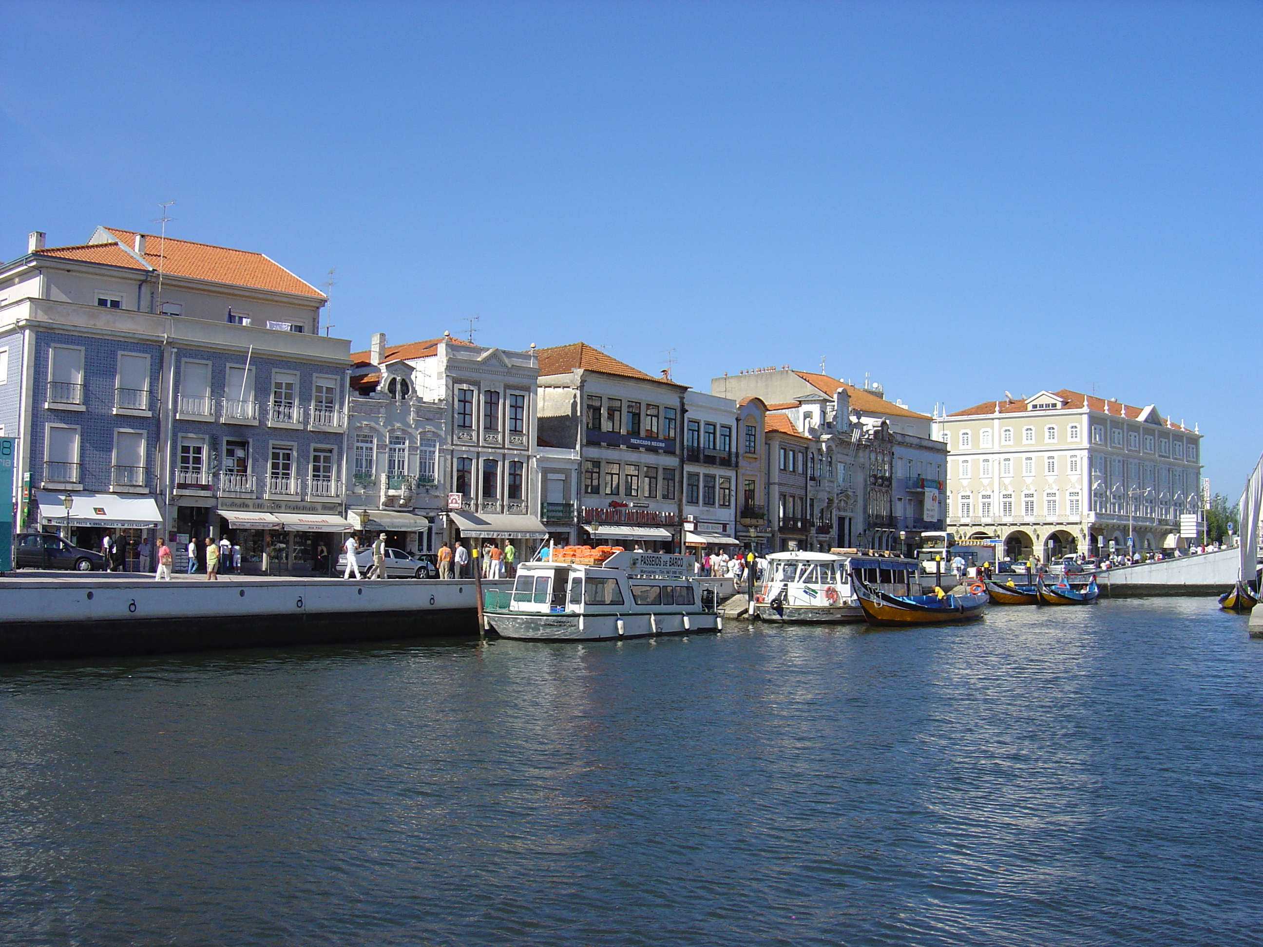 Aveiro, Portugal